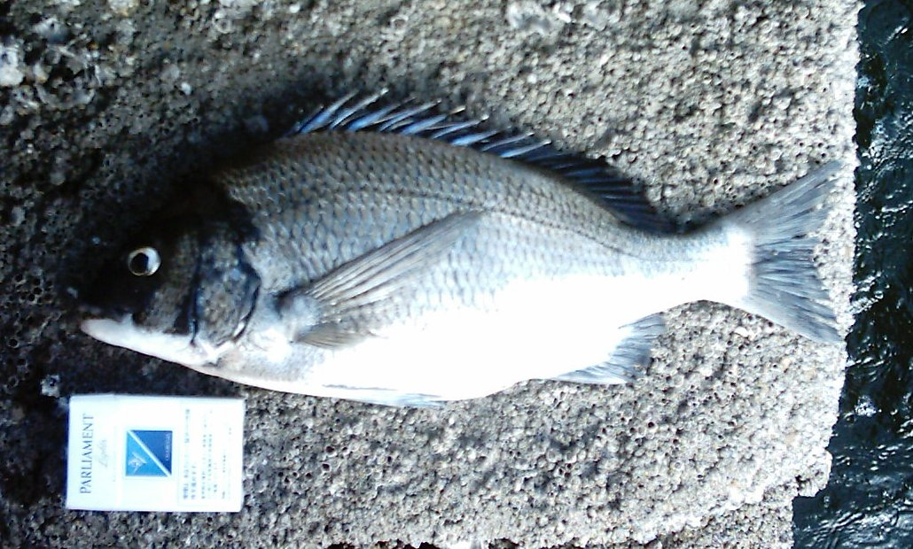 species: Acanthopagrus schlegelii variety: Black seabream Caught at the river mouth of Kiso in Mie-pref, Japan. 417mm Date: Sep. 15, 2006(JST) Caught & Photo by Vineyard user:OAS